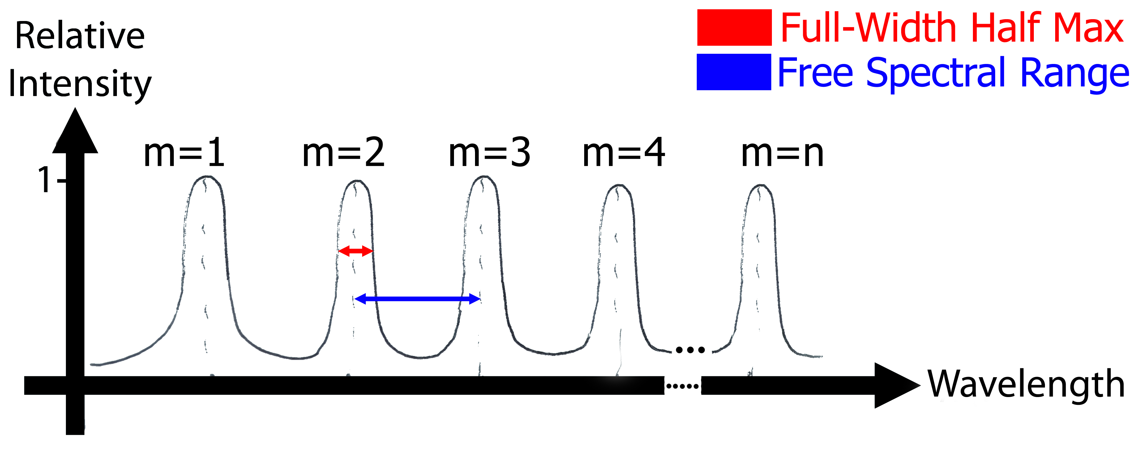 A transmission spectra of multiple modal resonances